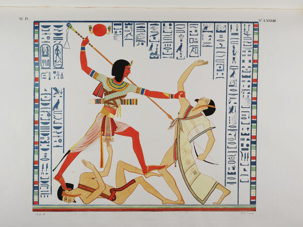 Plate from "Monumenti dell'Egitto e della Nubia", a work published in Pisa, Italy, containing hieroglyphics and reliefs taken from monuments in Egypt and Nubia. The shelfmark for this item is SAC:333 Ros.